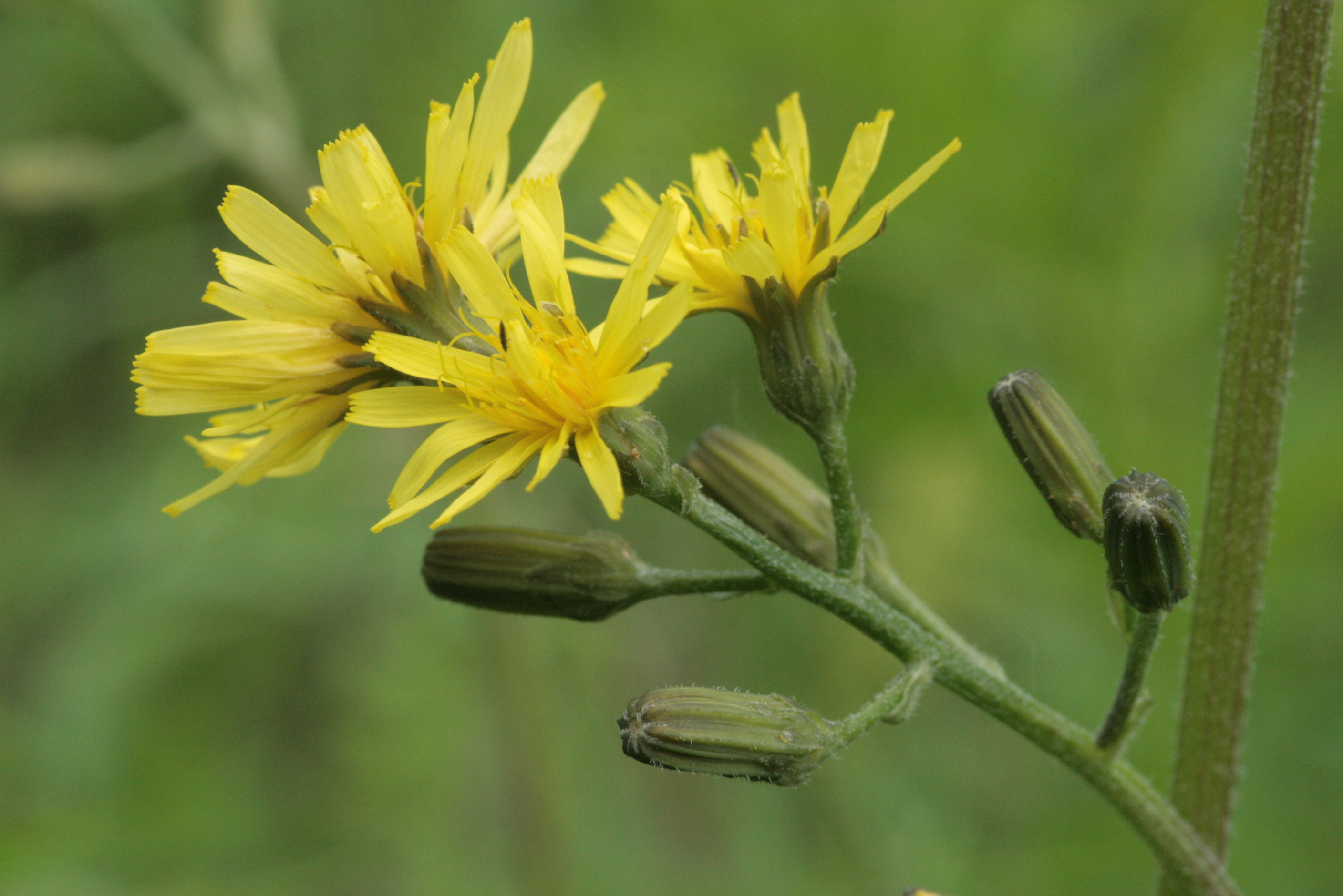 Crepis praemorsa